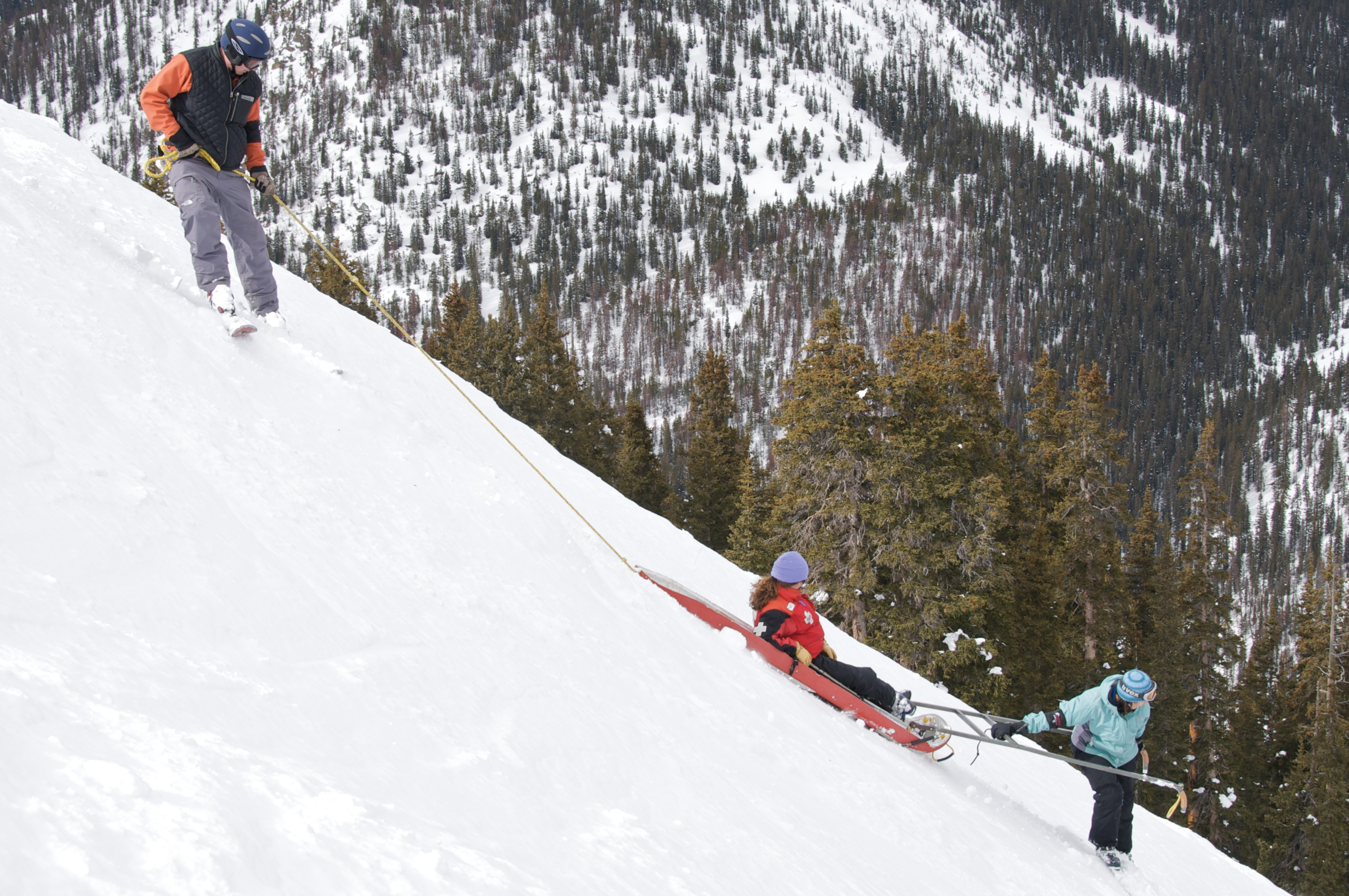 Search and Rescue: Rig Training. Lowering a litter in steep terrain. Arapahoe Basin, Colorado.